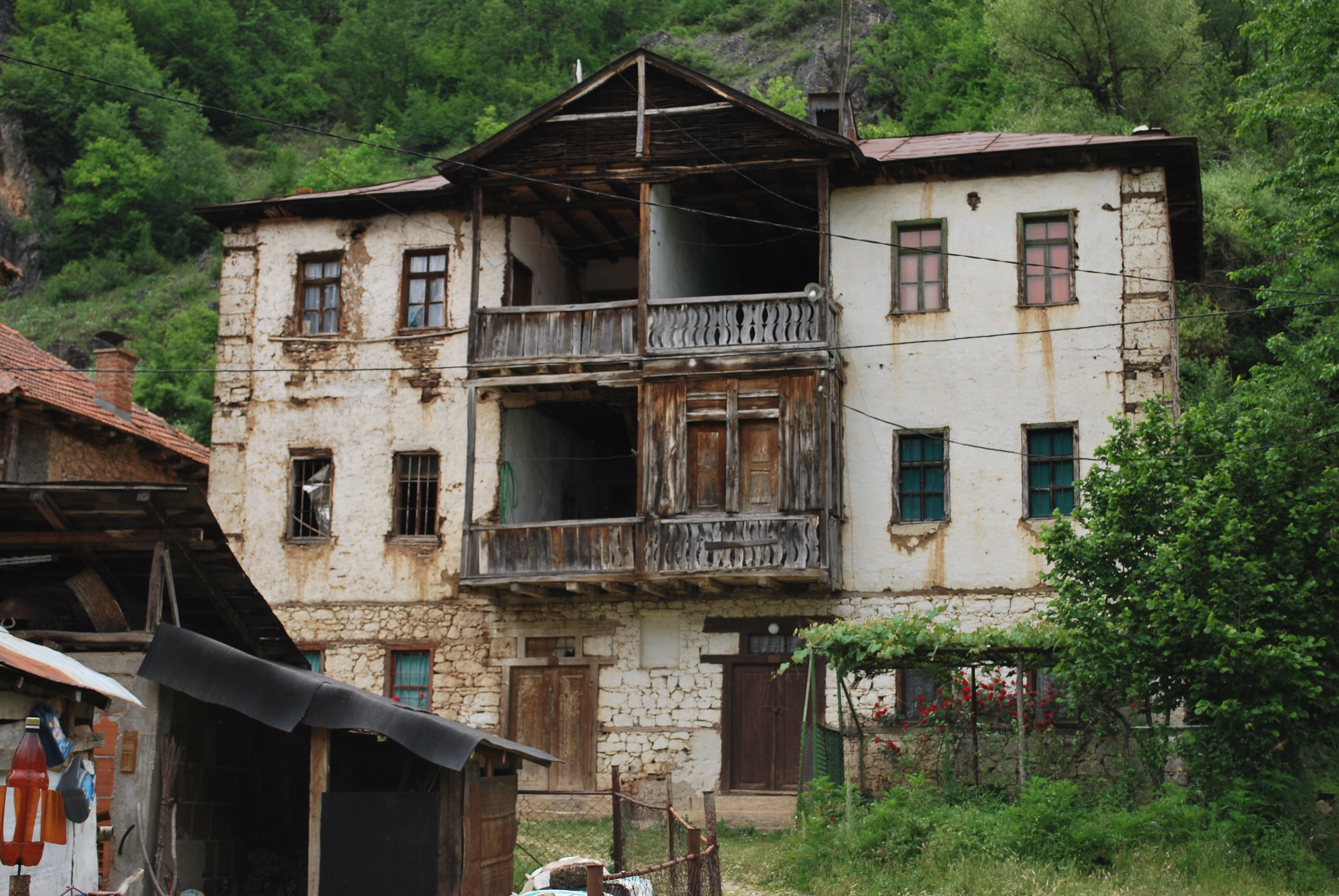 Belica near Kičevo, Macedonia